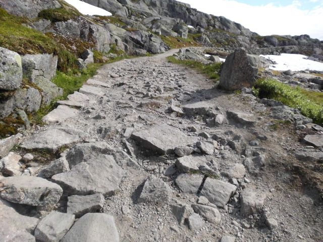 Rallarvegen at Lågheller